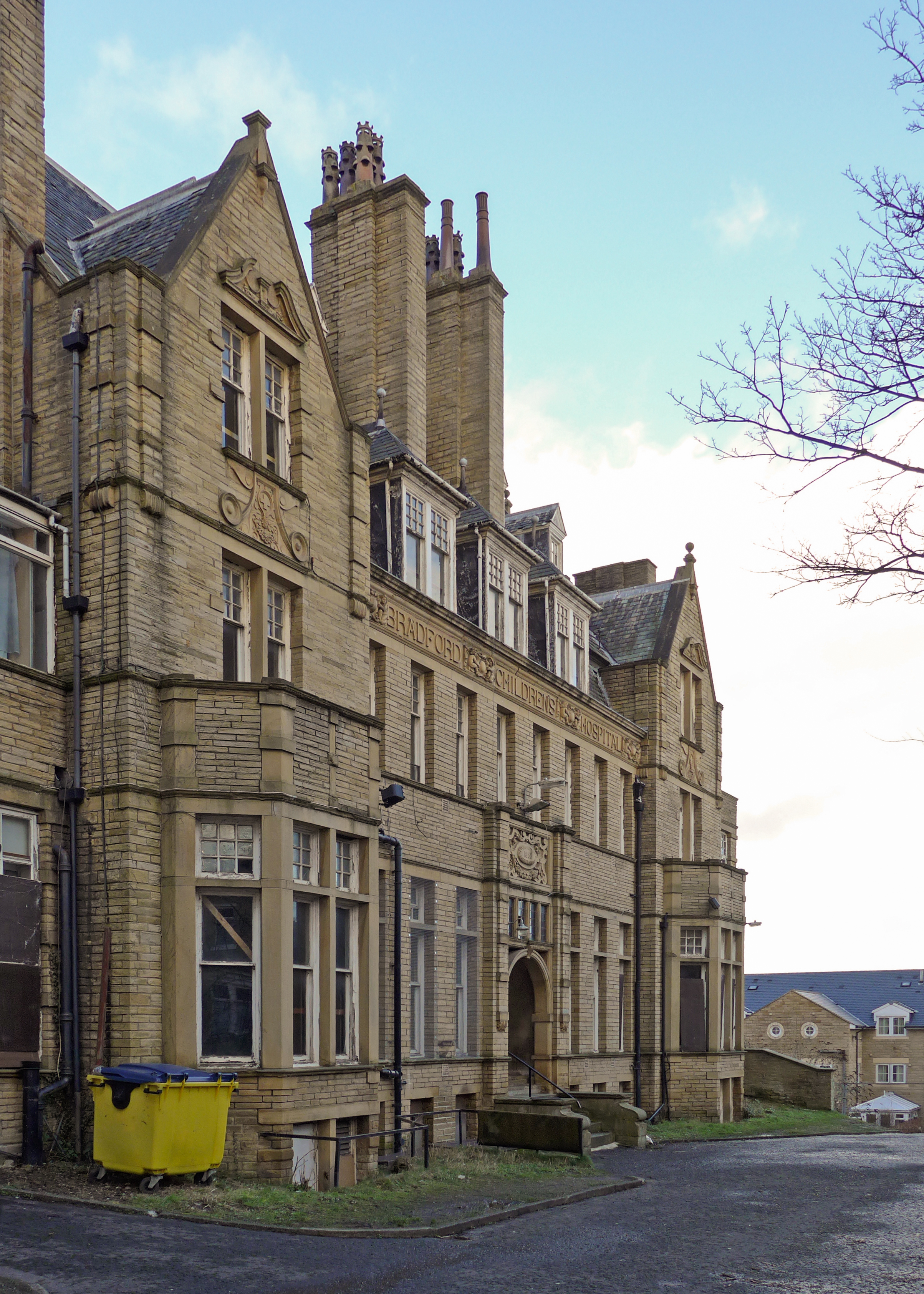 St Mary's Road, Bradford